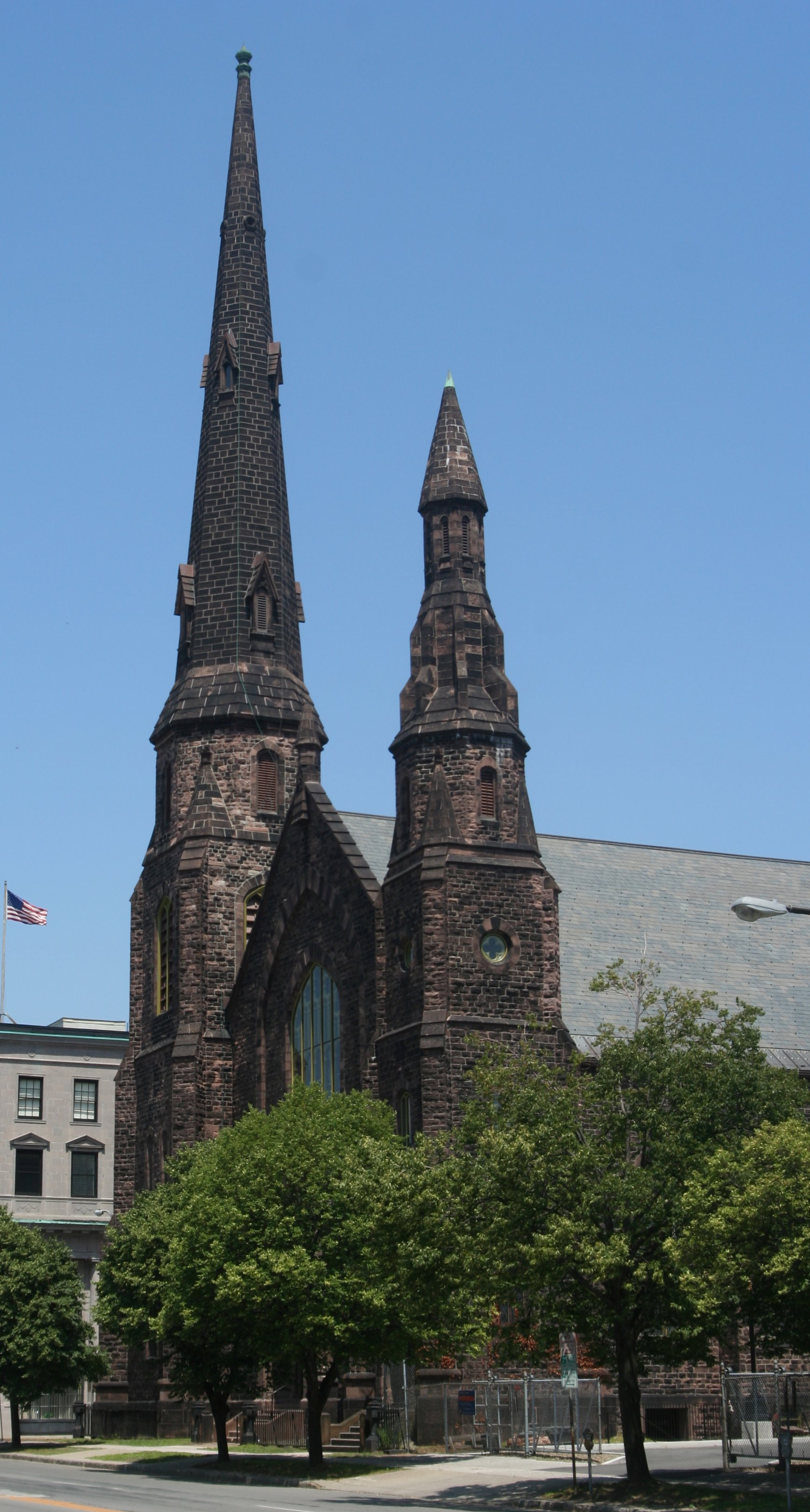 The former Asbury Delaware United Methodist Church, in Buffalo, NY, now home to Righteous Babe Records and Hallwalls Contemporary Art Center. The church was designed by John H. Selkirk, and built in 1876.